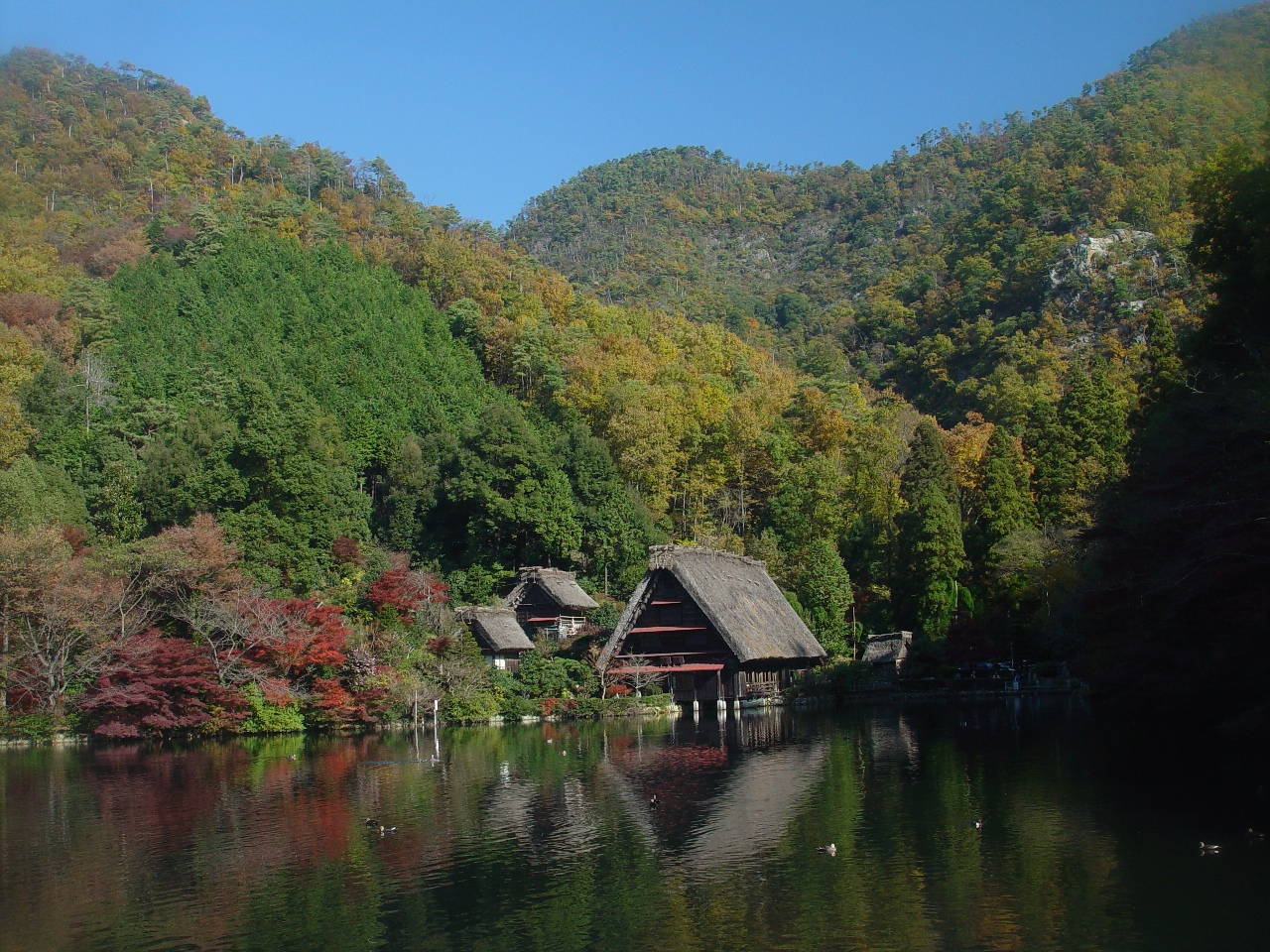 Matsuo Pond in Mount Dodo